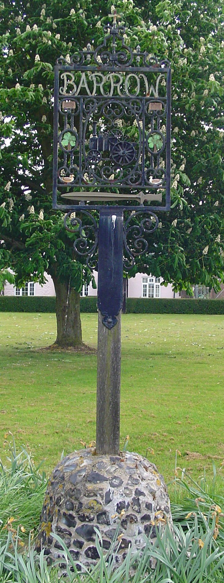 Signpost in Barrow, Suffolk